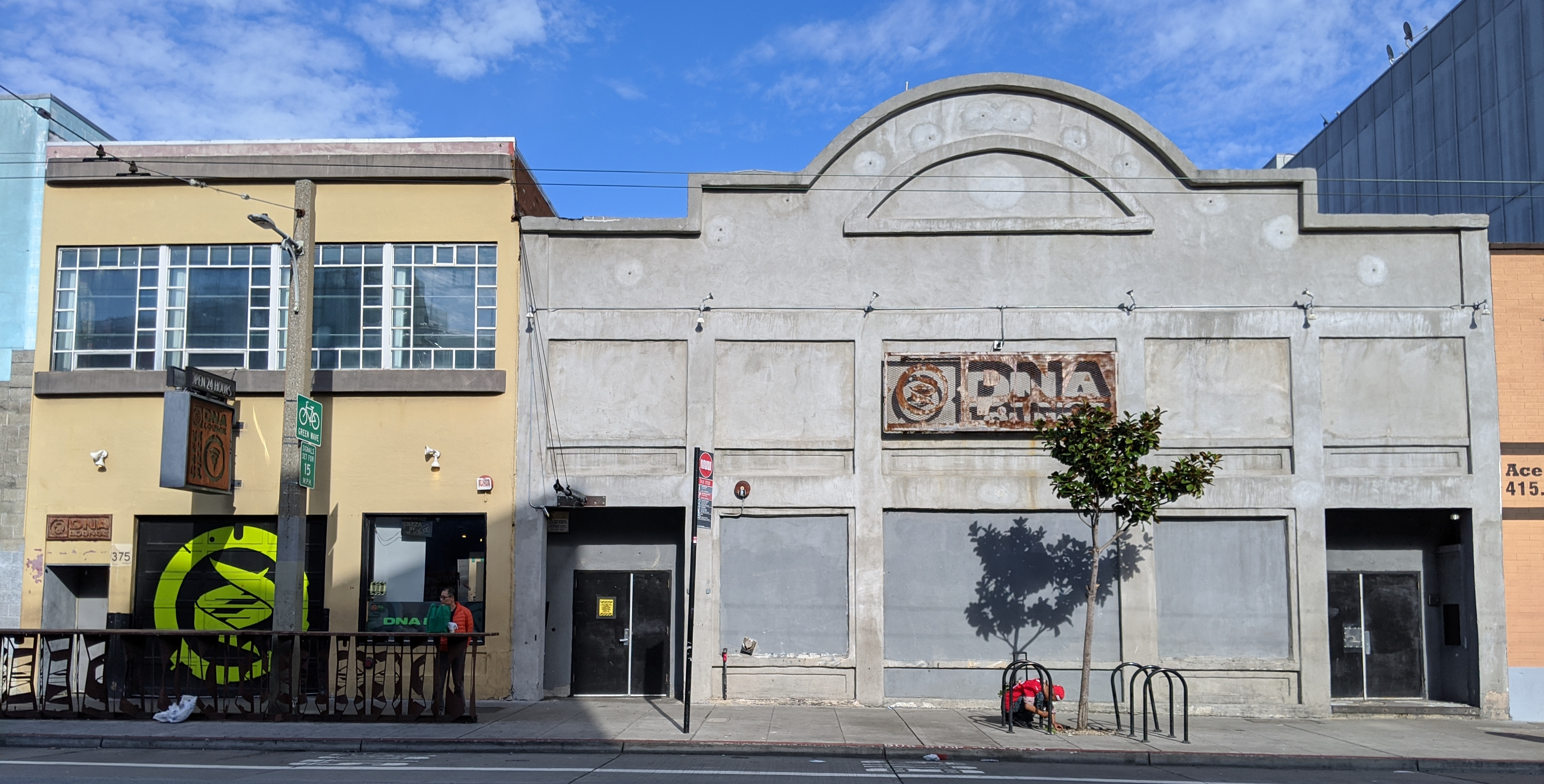 The building of DNA Lounge in San Francisco (seen across 11th Street); with DNA Pizza on the lower left